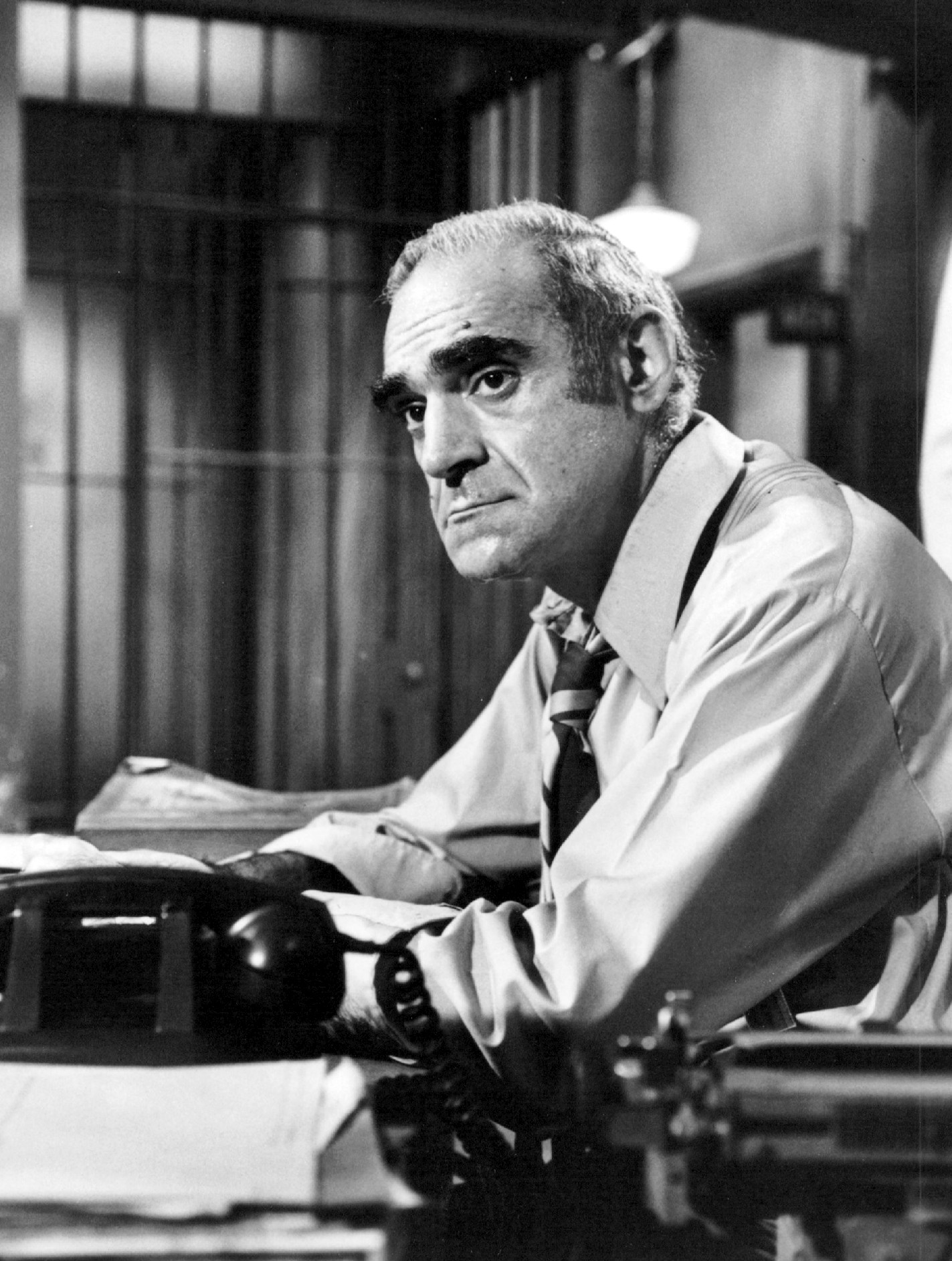 Photo of Abe Vigoda as Detective Phil Fish from the television program Barney Miller.